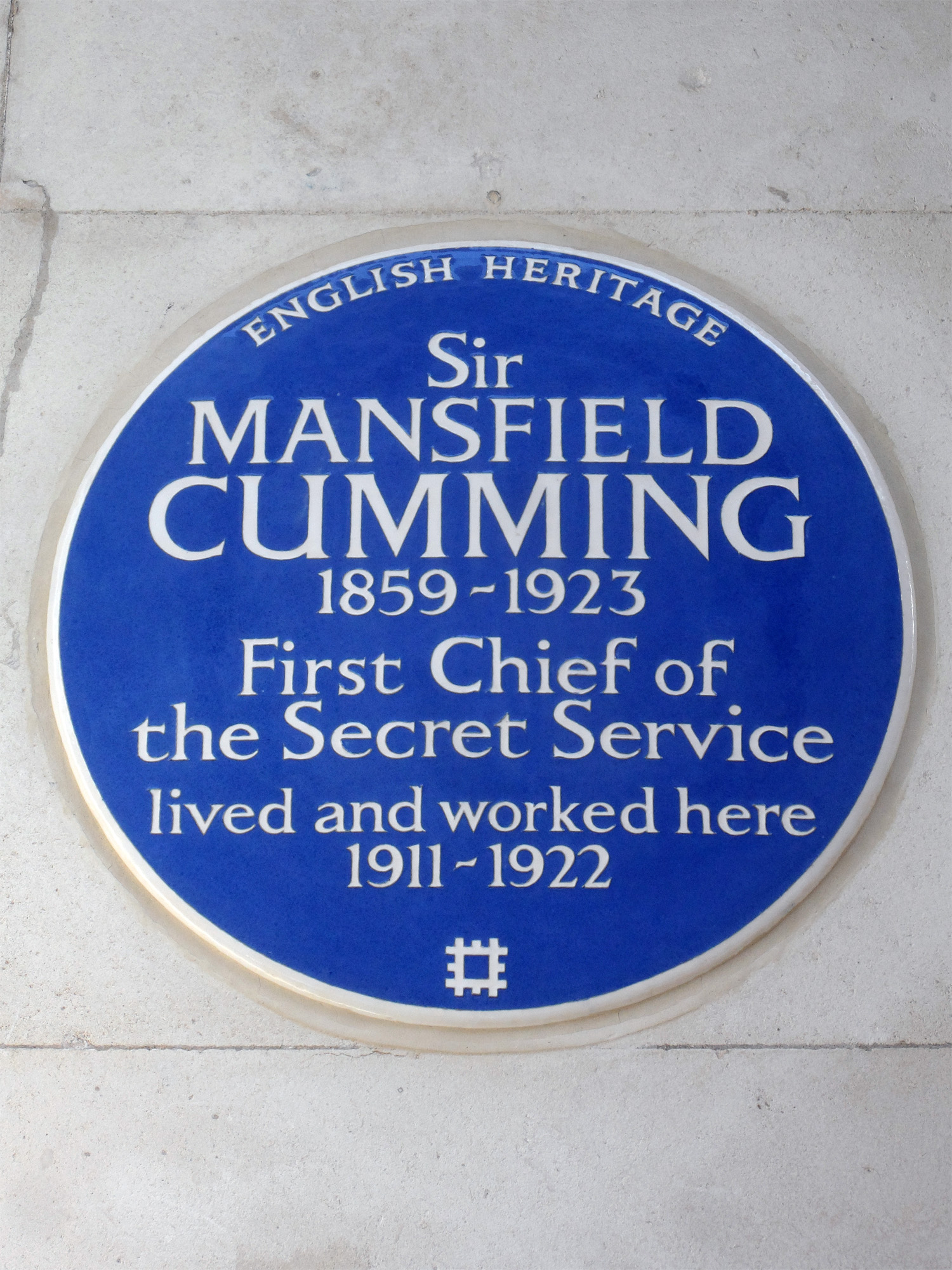 Blue Plaque erected by English Heritage at 2 Whitehall Court, London SW1A 2EJ on 30/03/2015